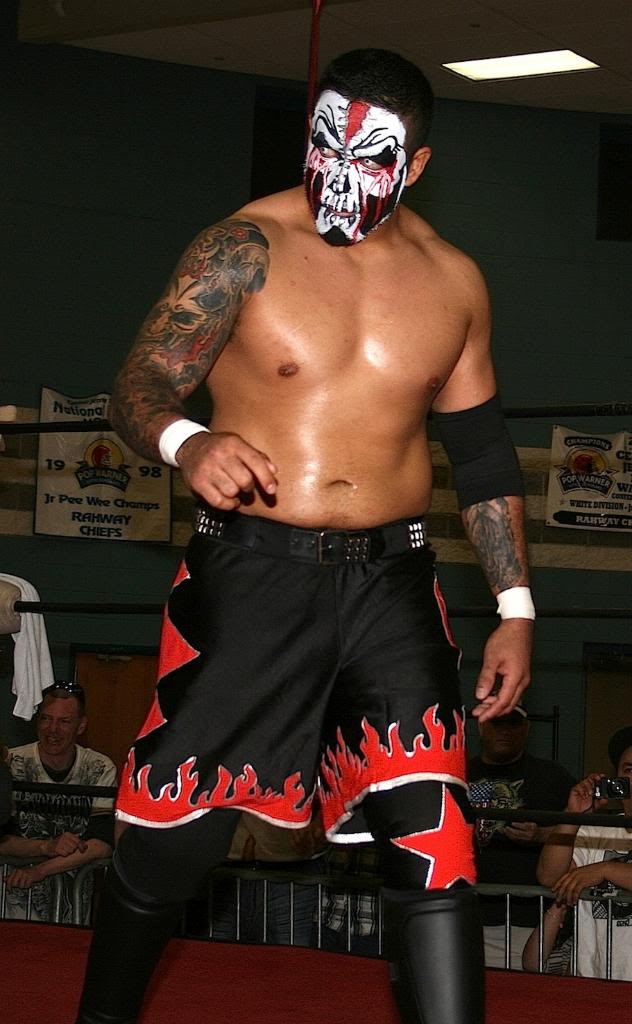 Photo of Joker taken before a match at JAPW's 14th Anniversary Show in 2012